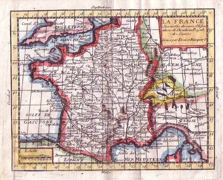 Claude Buffier - Geographie Universelle, Map of France (1749)